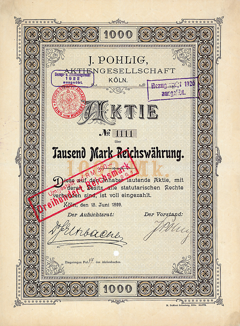 Share of the J. Pohlig AG, issued 15. June 1899